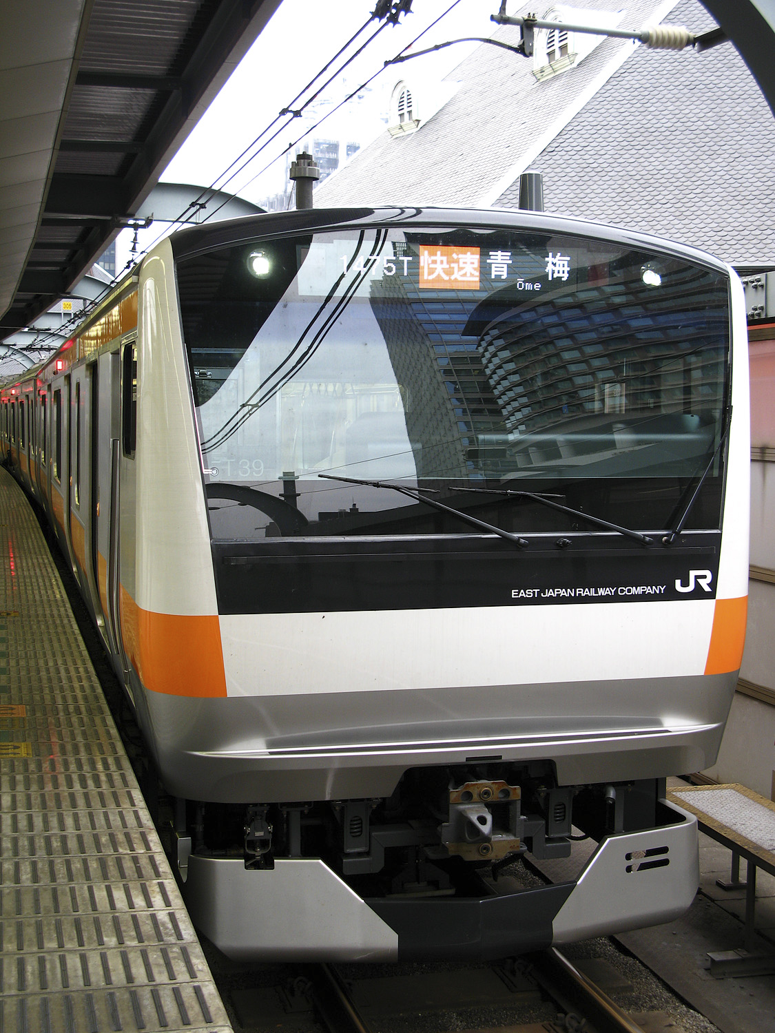 This is a JR East Ome Line E233 series train at Tokyo Station. It runs on the Chūō Rapid Line to Tachikawa, then on the Ome Line to Ome.